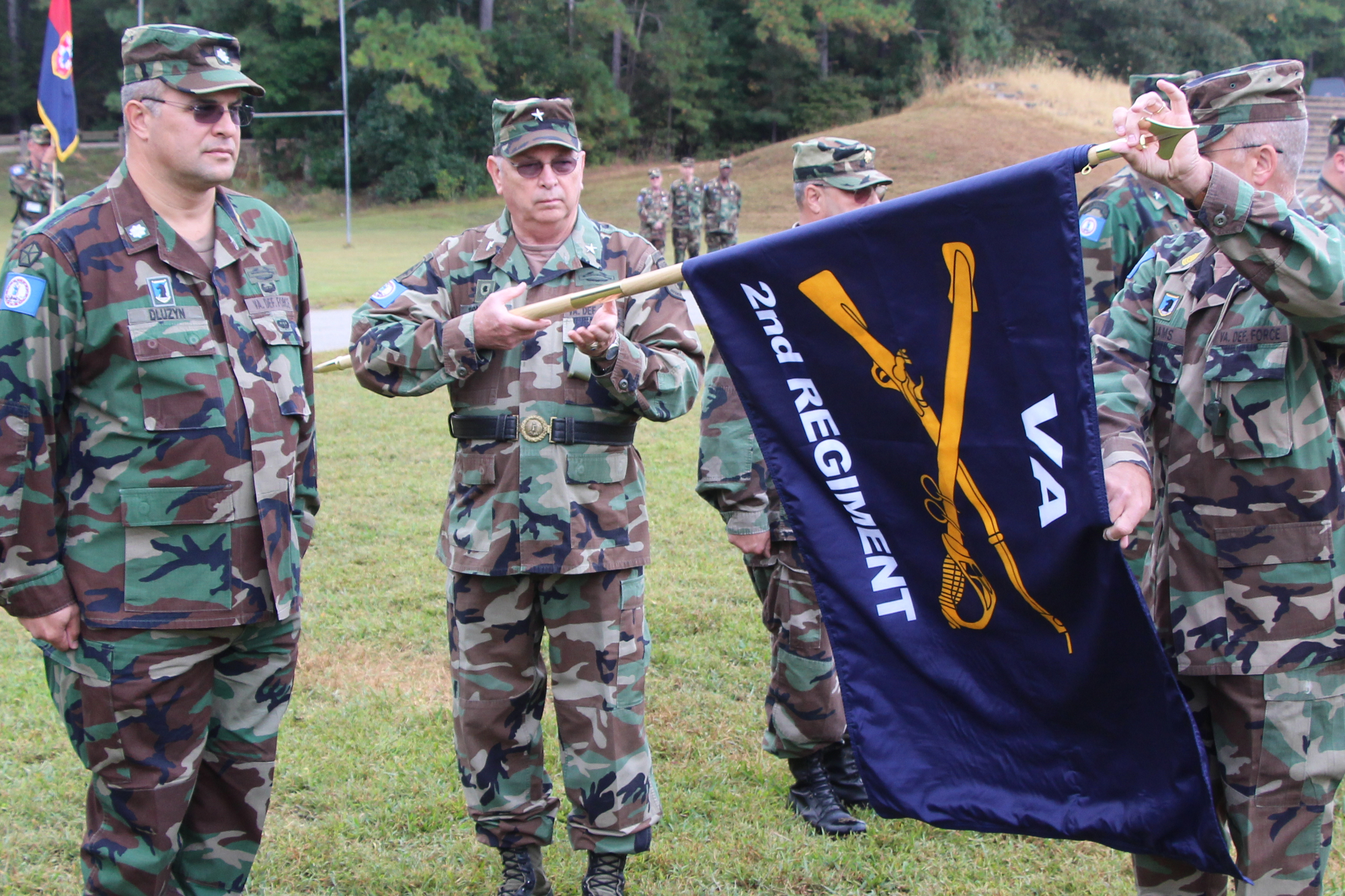 The Virginia Defense Force conducts a Change of Unit Designation Ceremony Sept. 28, 2013, at Fort Pickett as part of the organization's ongoing reorganization effort. During the ceremony, the VDF stood down the Black Horse and Highland Brigades and activated the 2nd, 3rd, 4th and 5th Regiments. In previously held ceremonies, the VDF deactivated the Lafayette Brigade and stood up the 1st Regiment. The all-volunteer VDF is in the final stages of a reorganization that will make them more flexible and capable of providing the mission packages as prescribed by the Virginia National Guard Defense Support to Civil Authorities Playbook. Some of the response packages include Incident Management Assistance Teams, JOC Augmentation Teams as well as teams focused on interoperable communications and shelter management. At the end of the ceremony, retiring VDF Command Sgt. Maj. Andy Stevens was recognized for his 28 years of active duty service in the U. S. Army and 11 years of service in the VDF. After the ceremony, Maj. Gen. Daniel E. Long, Jr., the Adjutant General of Virginia, addressed VDF leaders at their annual Commander's Conference. (Photo by Cotton Puryear, Virginia National Guard Public Affairs)